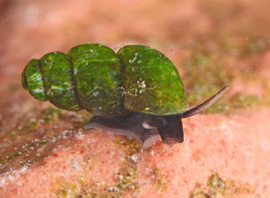 Bythinella cylindrica from locus typicus, Lower Austria